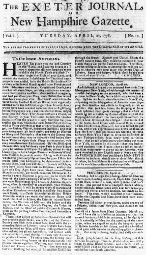 The Exeter Journal, or, New Hampshire Gazette; Date: 04-21-1778 (Exeter, New Hampshire)